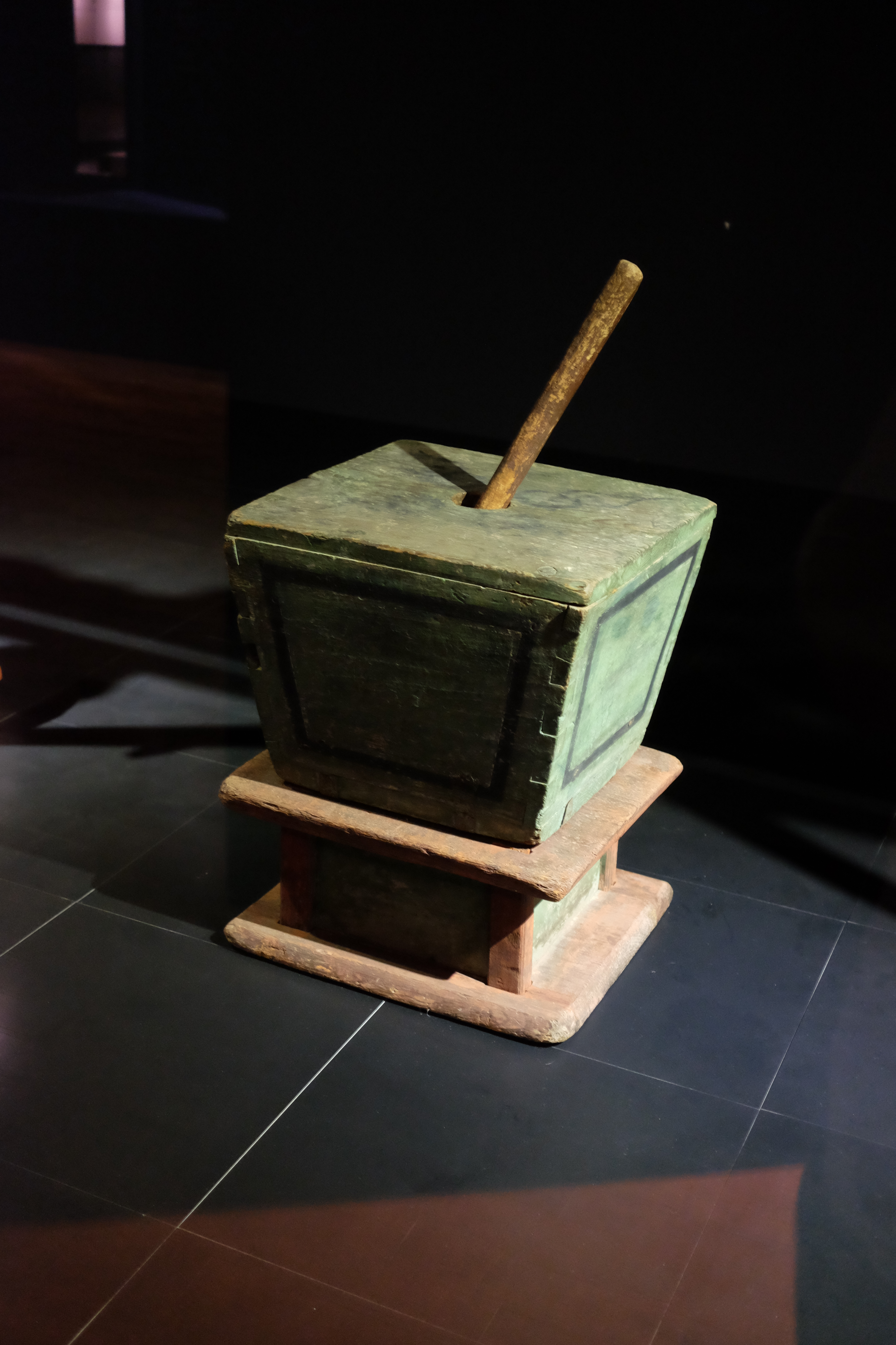 A Chuk in the National Palace Museum of Korea